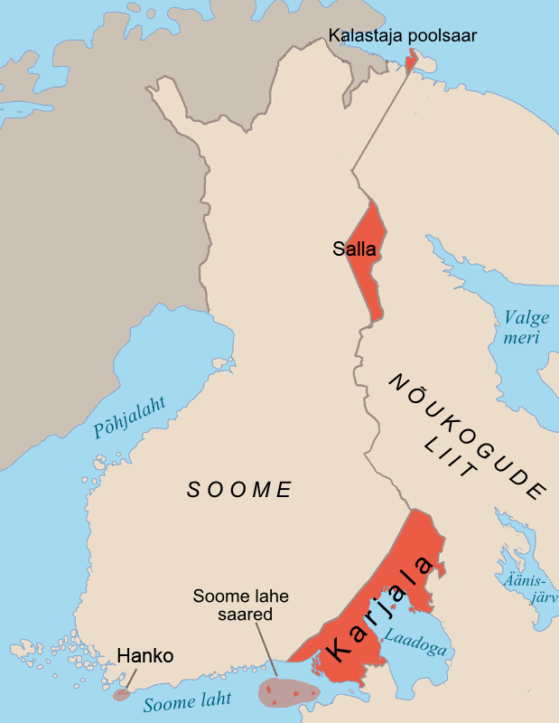 Map in Estonian of the areas ceded by Finland after the Winter War.